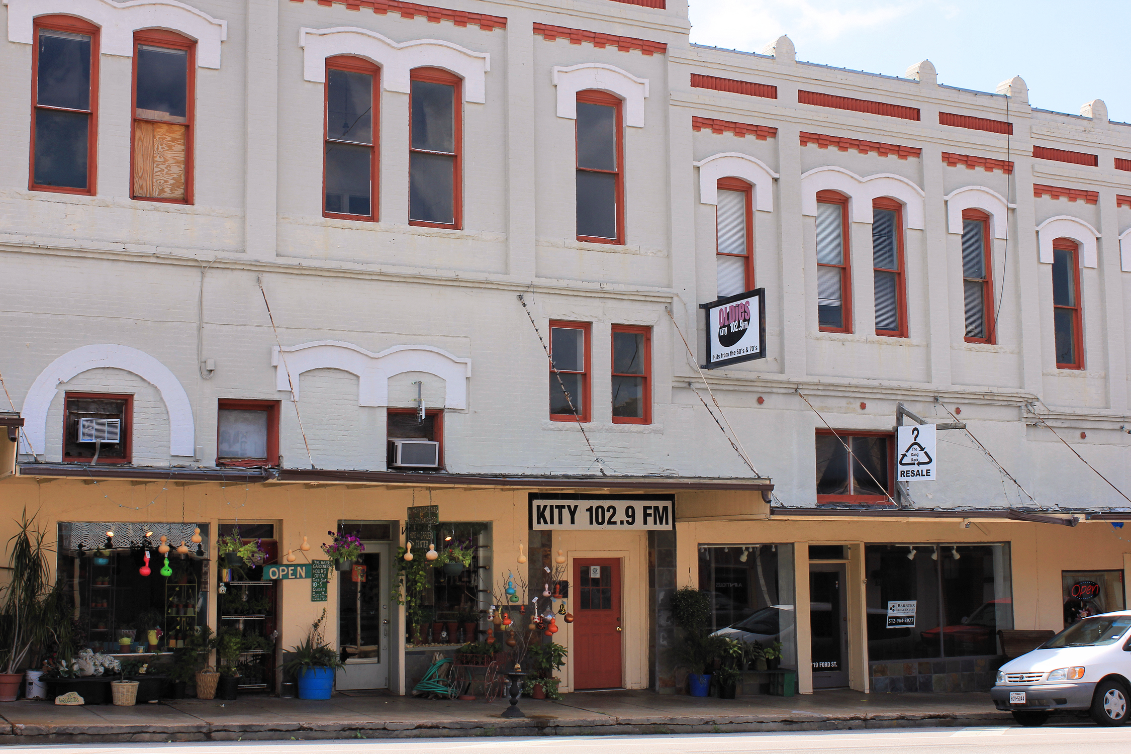 The KITY Studios in Llano, Texas, United States are located in the historic Haynie Block in downtown Llano, Texas, United States.